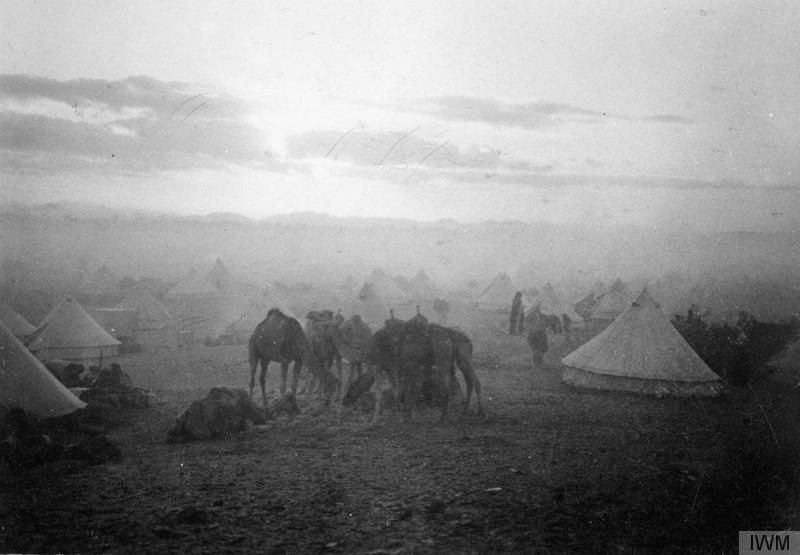 T E Lawrence and the Arab Revolt 1916 - 1918 Emir Feisal's camp at dawn, Nakhl Mubarak, near Yenbo.